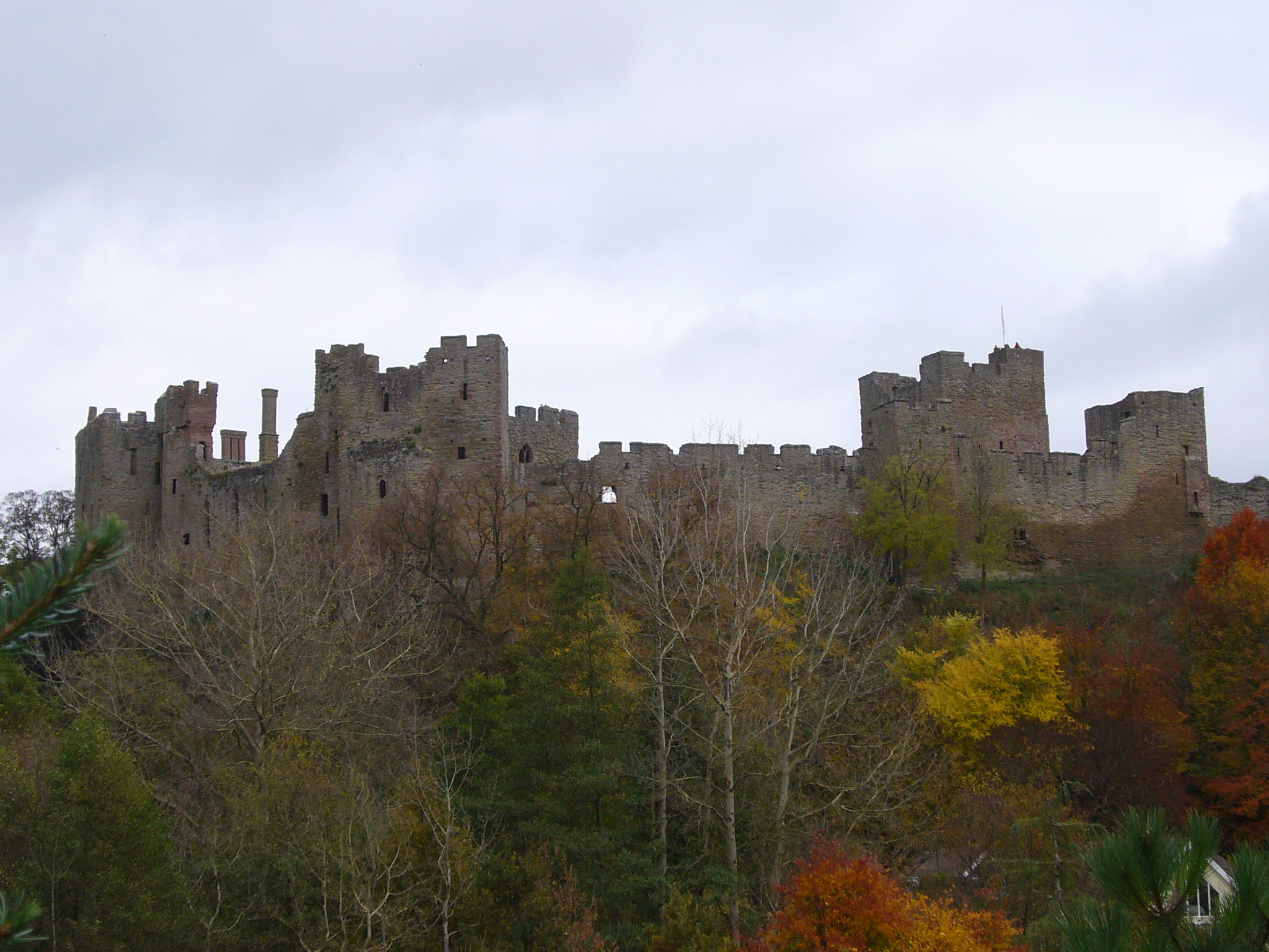 Ludlow Castle